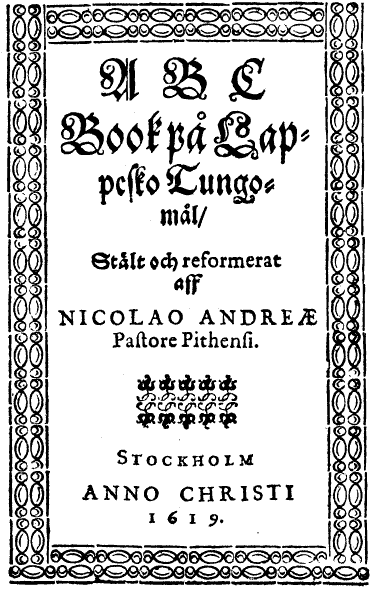 Title page of the first printed book in Saami language, an alphabet book written by the priest Nicolaus Andreae of Piteå